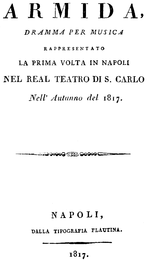 Gioachino Rossini - Armida - titlepage of the libretto - Naples 1817